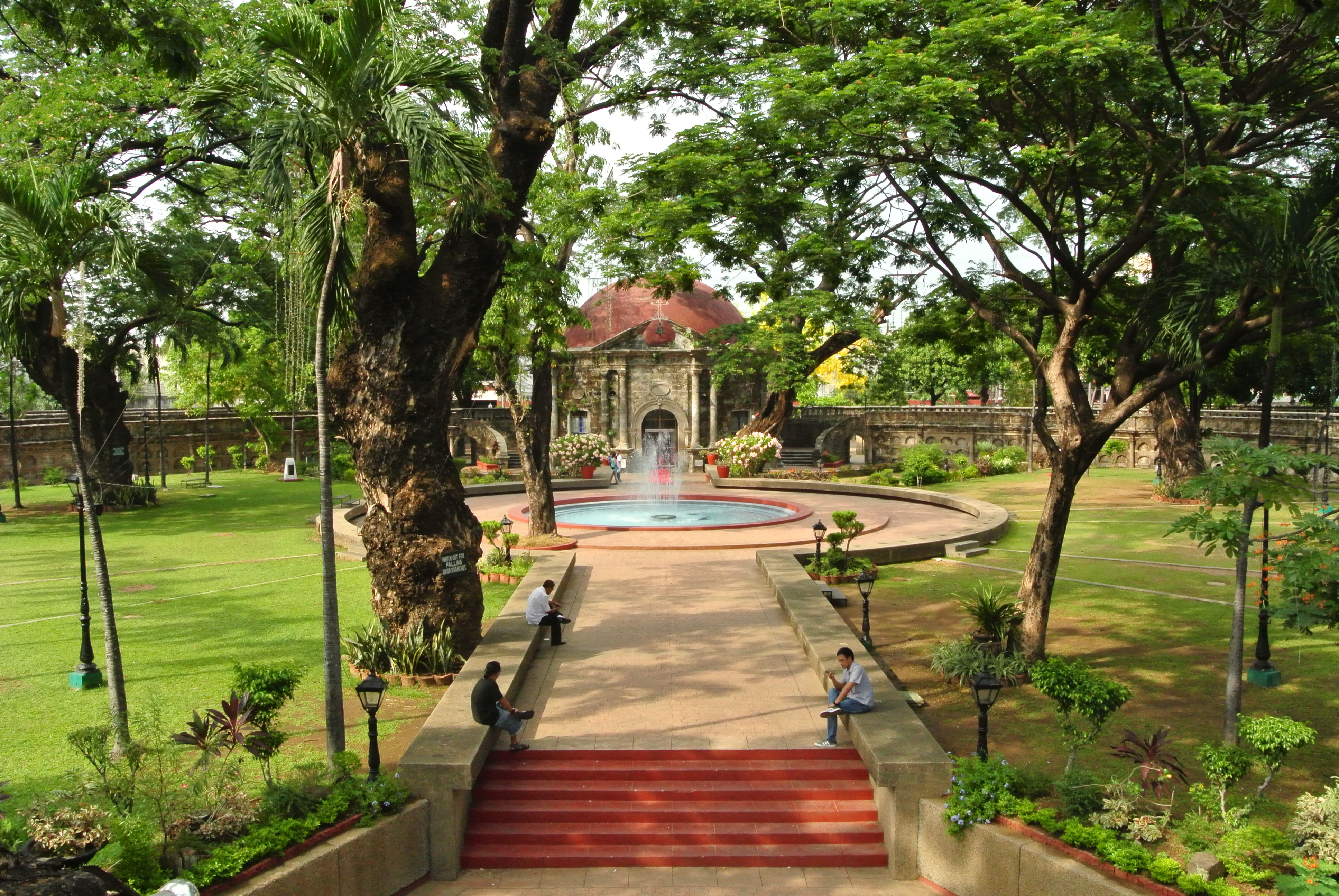 View from the pathway.